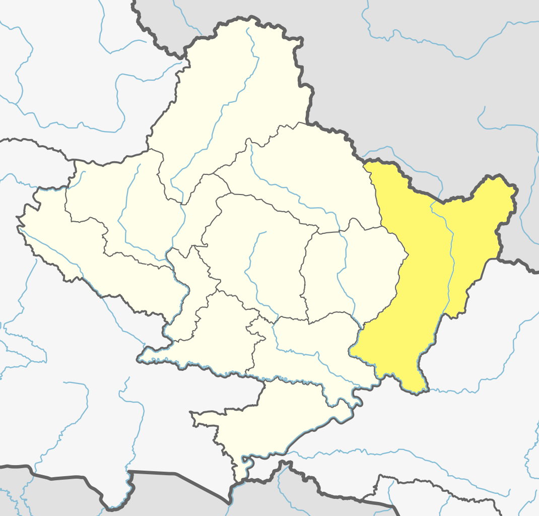 Gorkha District